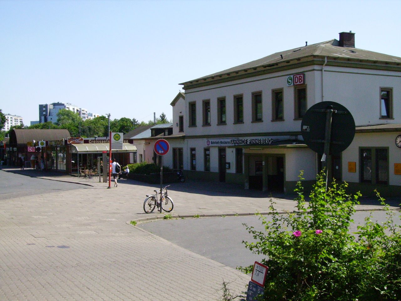 Pinneberg railway station, outside view in front the old station building on the left the new entrance to the platforms (2008)